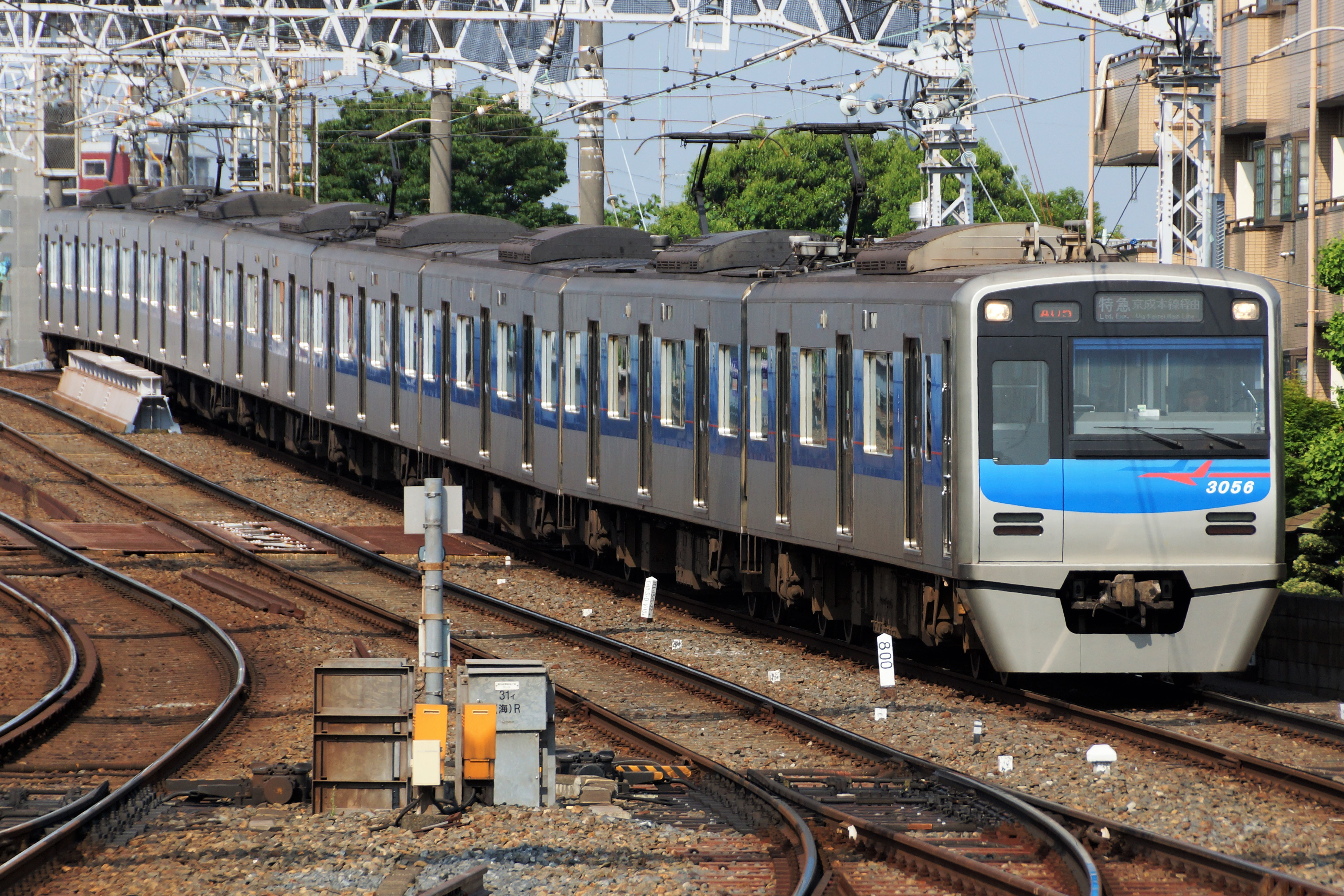 Keisei Electric Railway 3050 series EMU set 3056 approaching Keisei Takasago Station in Tokyo, Japan